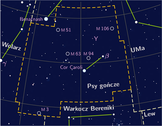 Canes Venatici constelation. Legenda[edit] Gwiazdy zostały oznaczone jasnymi kółkami, których promień powiązany jest z ich obserwowaną jasnością, a kolor pokazuje barwę światła danej gwiazdy. Jasnoszarym tekstem oznaczono polskojęzyczne nazwy gwiazdozbiorów bądź, w przypadku braku miejsca, skróty ich nazw łacińskich. Purpurowo opisane zostały nazwy lub oznaczenia gwiazd oraz innych obiektów. Białe okręgi (lub elipsy) pokazują rozmiary niektórych obiektów (np. galaktyk lub gromad otwartych) Granice gwiazdozbiorów zaznaczone są przerywaną, jasnożółtą linią, a granice aktualnie prezentowanego gwiazdozbioru - linią jasnopomarańczową. Linie łączące poszczególne gwiazdy w obrębie gwiazdozbiorów są koloru zielonego. Drogę Mleczną ukazano jako zmiany koloru tła od ciemnego granatu do jasnego błękitu. Czerwoną linią przerywaną oznaczona jest ekliptyka. Białym tekstem opisane zostały większe powierzchniowo obiekty takie, jak Obłoki Magellana, czy gromada galaktyk w Pannie. Linie ukazujące kształty gwiazdozbiorów zostały dobrane arbitralnie, jednak z akcentem na spójność z dostępnymi źródłami polskojęzycznymi, oraz, w niektórych przypadkach, tak, by bardziej odpowiadały nazwie gwiazdozbioru. Wyznaczone zostały one na podstawie następujących źródeł: książki "Niebo na dłoni" Eduarda Pitticha i Dusana Kalmancoka, książki "Nasze gwiazdozbiory" Josipa Kleczka, obrotowej mapy nieba opracowanej przez PTMA Kraków oraz programów SkyGlobe i Celestia.